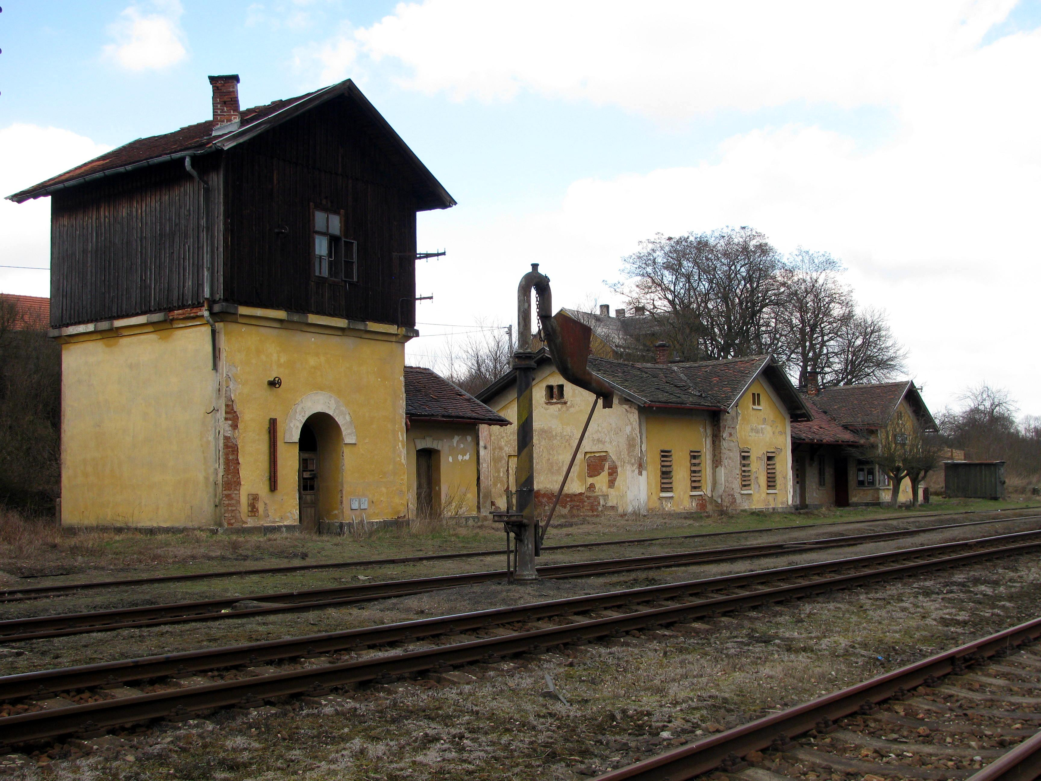 Protivec railway station, Czech Republic